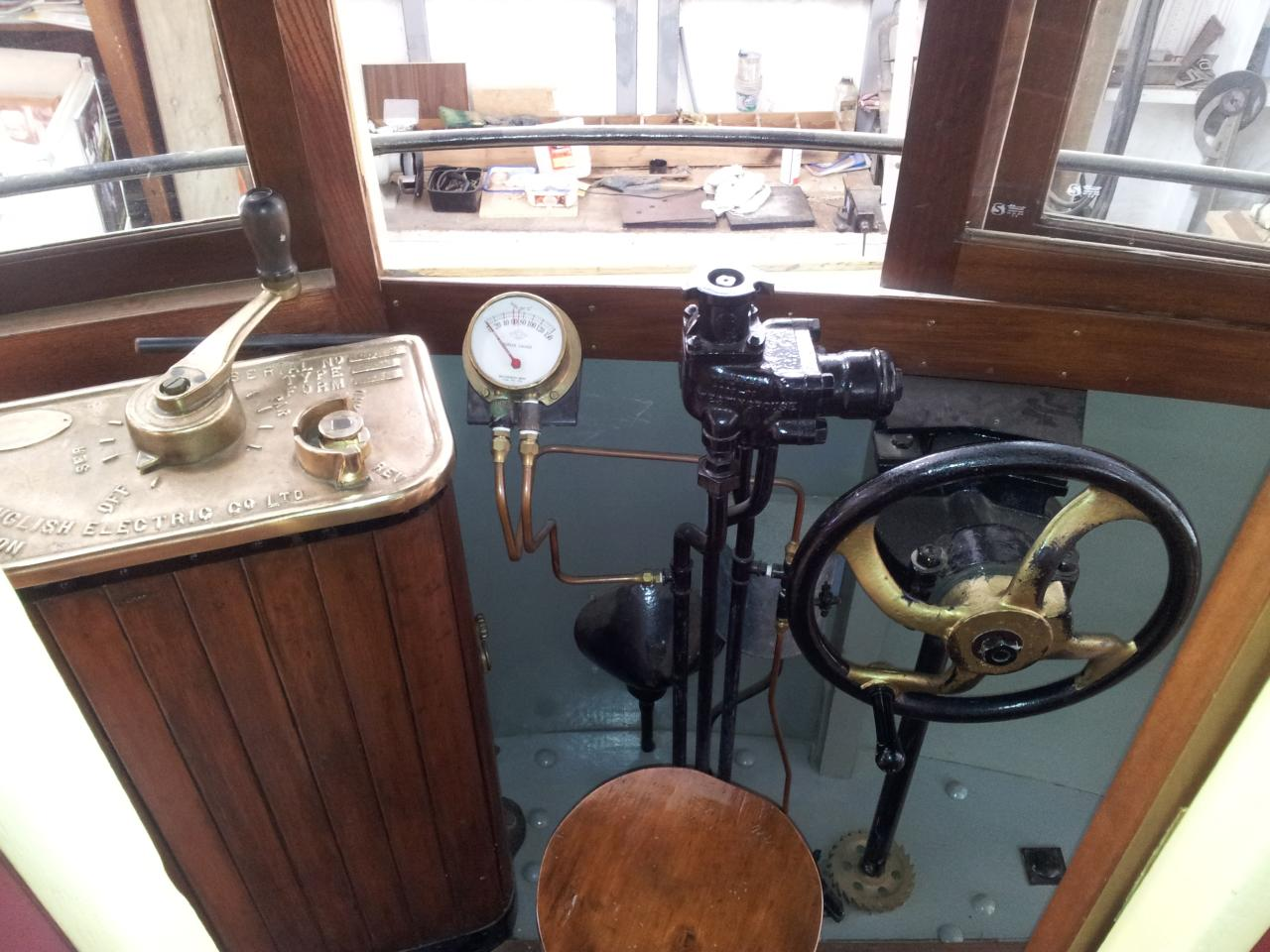 Whanganui, possible tram control room